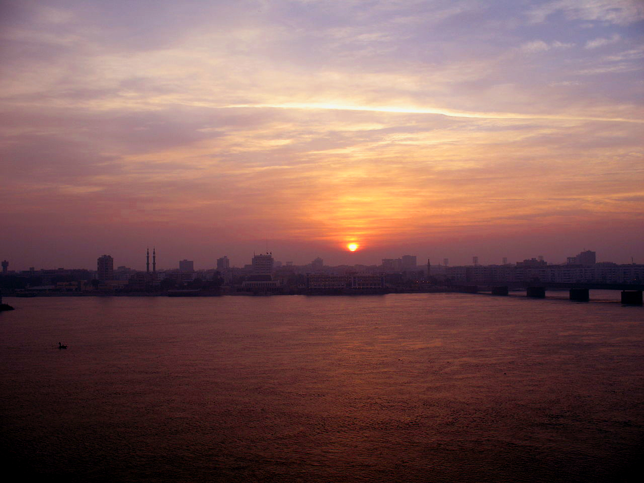 Sohag skyline at dawn (east bank)